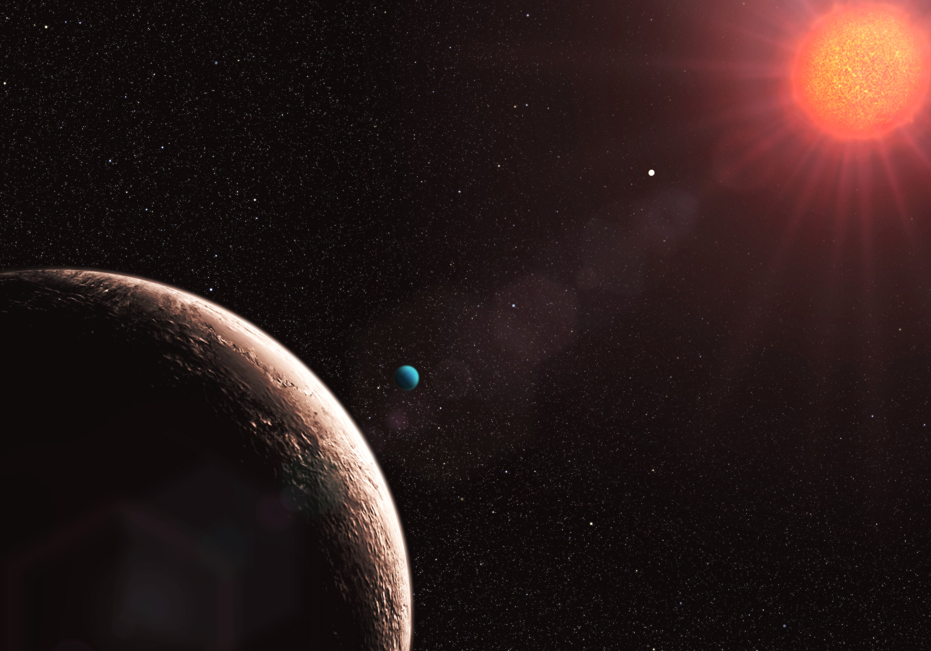 After more than four years of observations using the most successful low-mass exoplanet hunter in the world, the HARPS spectrograph attached to the 3.6-metre ESO telescope at La Silla, Chile, astronomers have discovered in this system the lightest exoplanet found so far: Gliese 581e (foreground) is only about twice the mass of our Earth. The Gliese 581 planetary system now has four known planets, with masses of about 1.9 (planet e, left in the foreground), 16 (planet b, nearest to the star), 5 (planet c, centre), and 7 Earth-masses (planet d, with the bluish colour). The planet furthest out, Gliese 581d, orbits its host star in 66.8 days, while Gliese 581 e completes its orbit in 3.15 days.